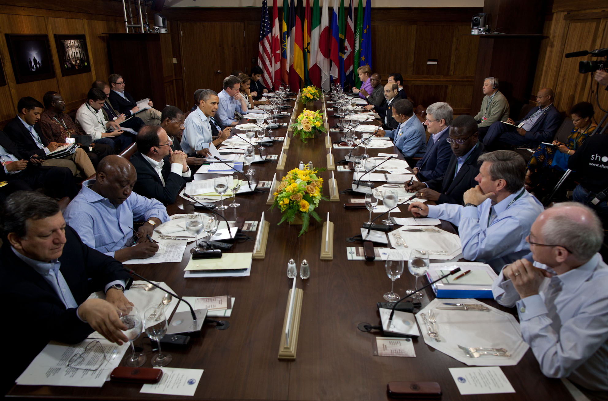 President Barack Obama participates in a working lunch focused on food security, in the conference room of Laurel Cabin during the G8 Summit at Camp David, Md., May 19, 2012. (Official White House Photo by Pete Souza)